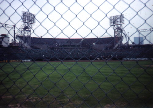 Nissay-Stadium in Osaka-City